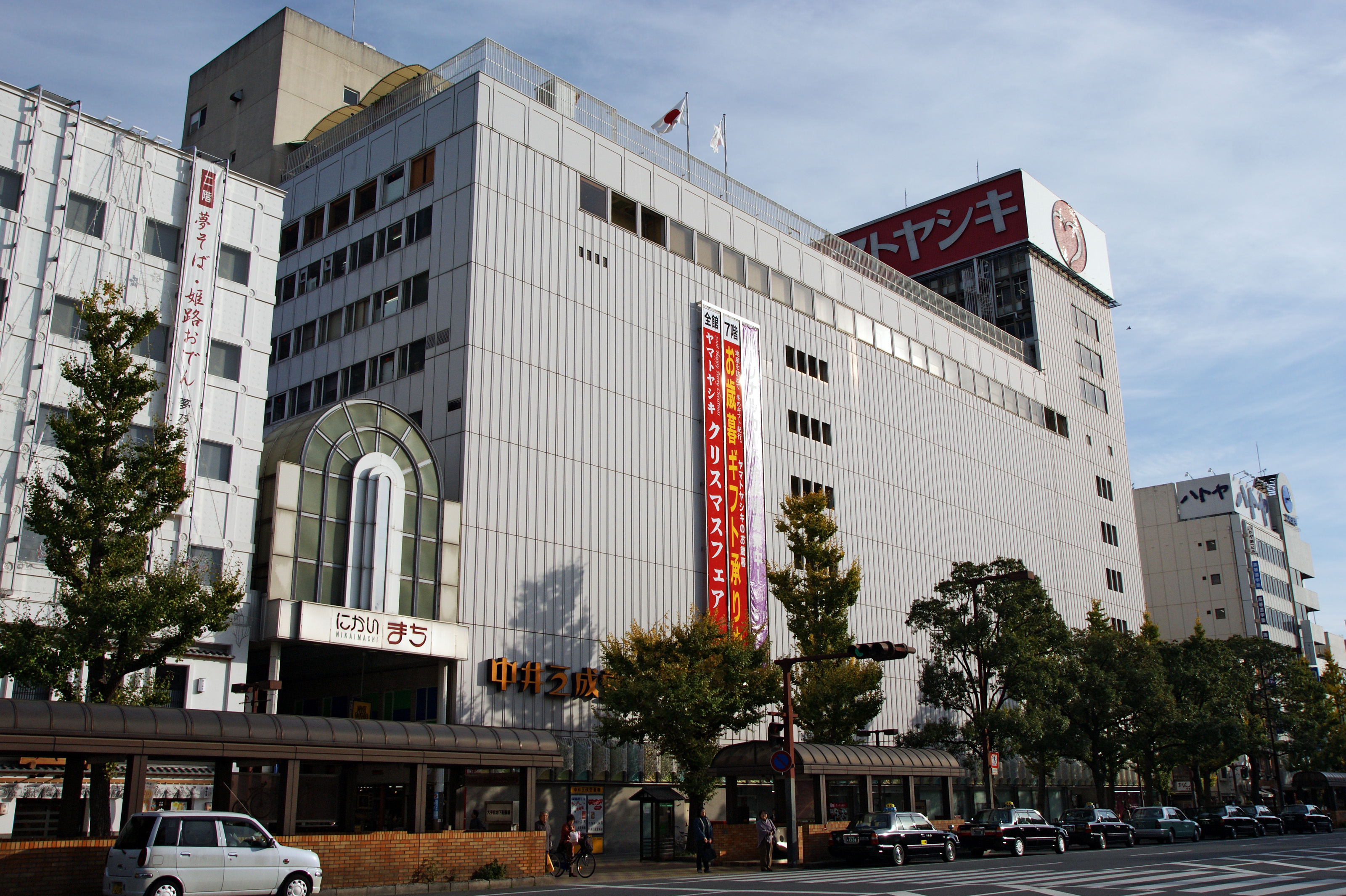 Yamatoyashiki department Himeji store is located in Himeji, Hyōgo Prefecture, Japan